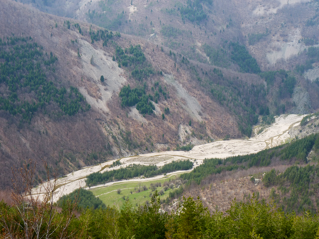 Sushitza River, view from Belintash